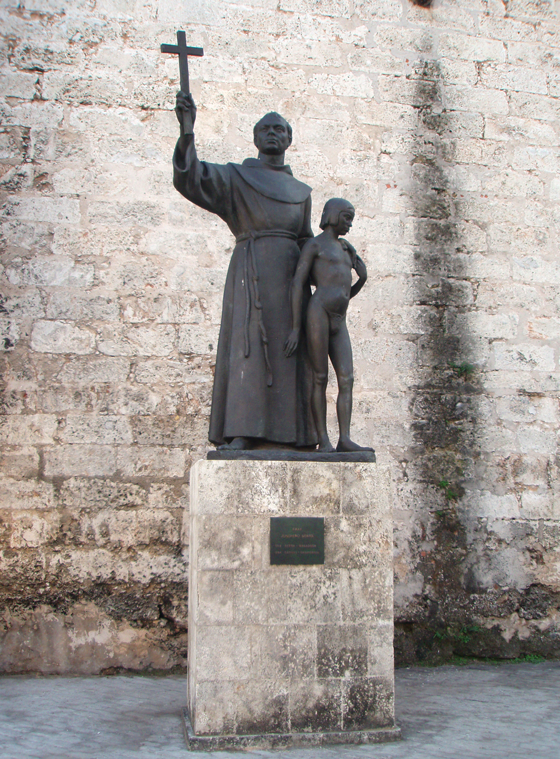 Monument of Junípero Serra (with Juaneño Indian boy) on plaza de San Francisco de Asis in Havana. Located next to Basilica Menor de San Francisco de Asis (Havana). Information about the statue: [1]